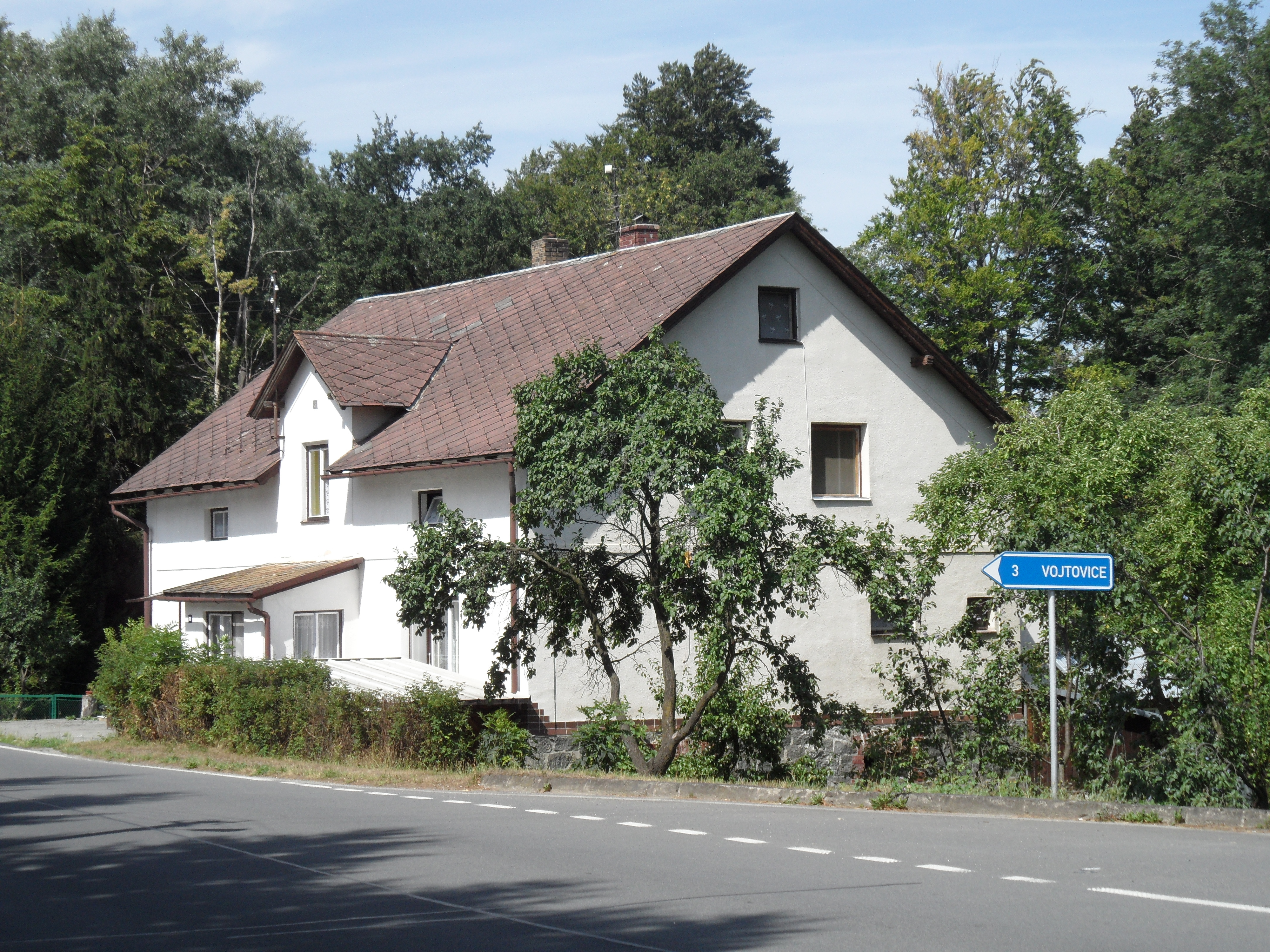 Bergov D. House along Main Road I/60. Jeseník District, the Czech Republic.